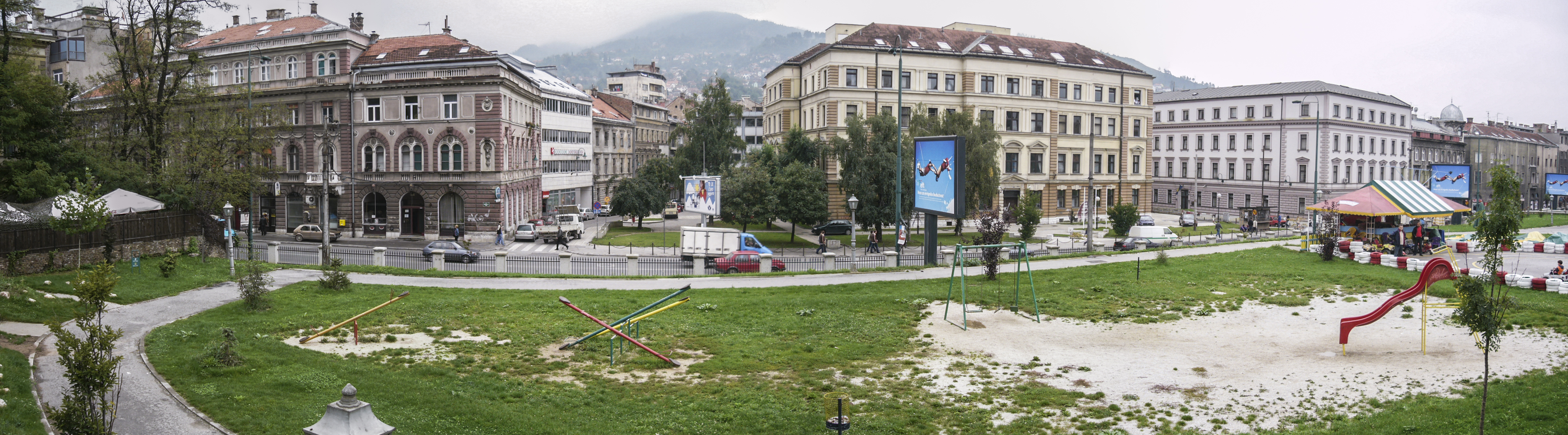 Hastahana Park is also a skatepark in Sarajevo neighborhood of Marijin Dvor.